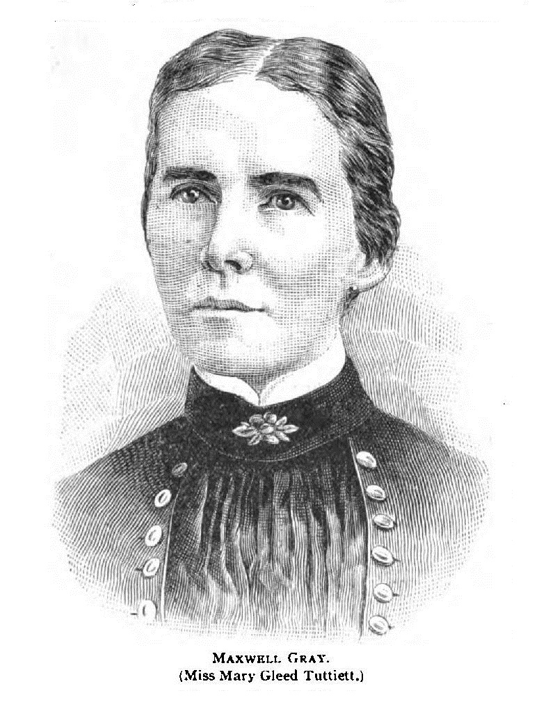 Etching of Maxwell Gray (1846-1923)